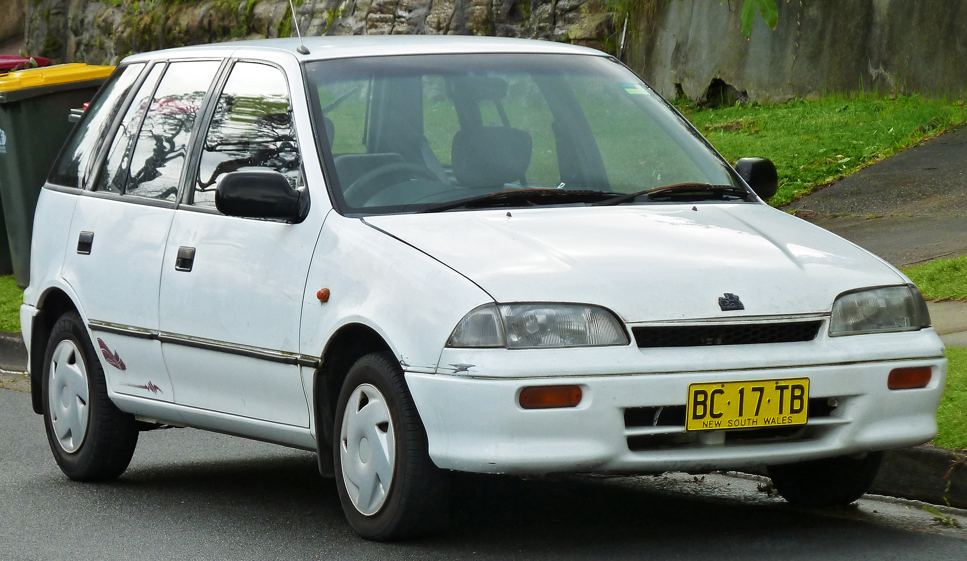 1993 Holden Barina (MH) 5-door hatchback. Photographed in Castle Cove, New South Wales, Australia.